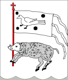 Principality of Mingrelia (Odishi) coat of arms